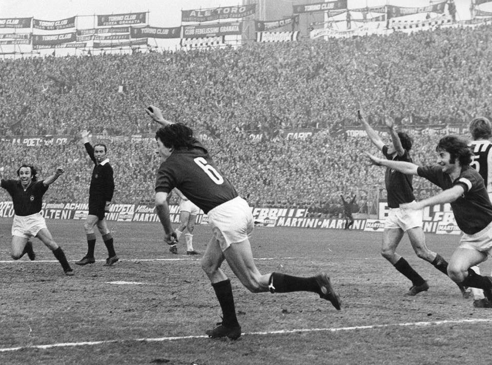 Turin (Italy), Communal Stadium, March 26, 1972. A.C. Torino — Juventus F.C. 2-1, Matchday 23 of the Italian League 1971–72 Serie A. Torino's Aldo Agroppi (no. 6) celebrate his decisive goal in the Turin derby.